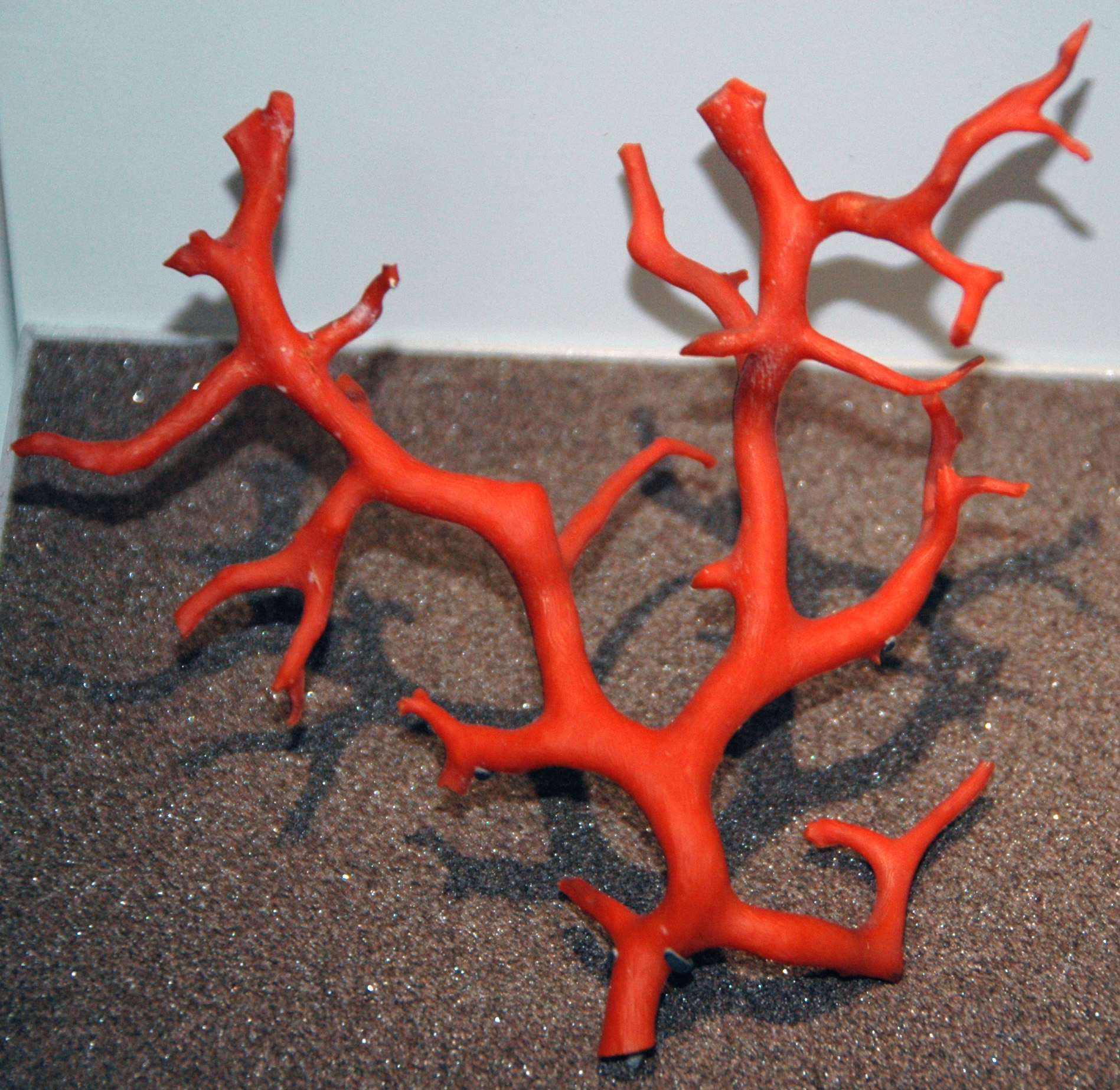 Corallium rubrum (Linnaeus, 1758) - red coral (Field Museum of Natural History, Chicago, Illinois, USA). The red coral (a.k.a. precious coral; noble coral) is a spectacular example of modern octocoral. Polished fragments have been used as organic gemstones. The skeleton is aragonite (CaCO3), mixed with reddish-colored organic compounds. Corallium rubrum occurs in the northeastern Atlantic Ocean and the Mediterranean Sea. Classification: Animalia, Cnidaria, Anthozoa, Octocorallia, Gorgonacea, Corallidae